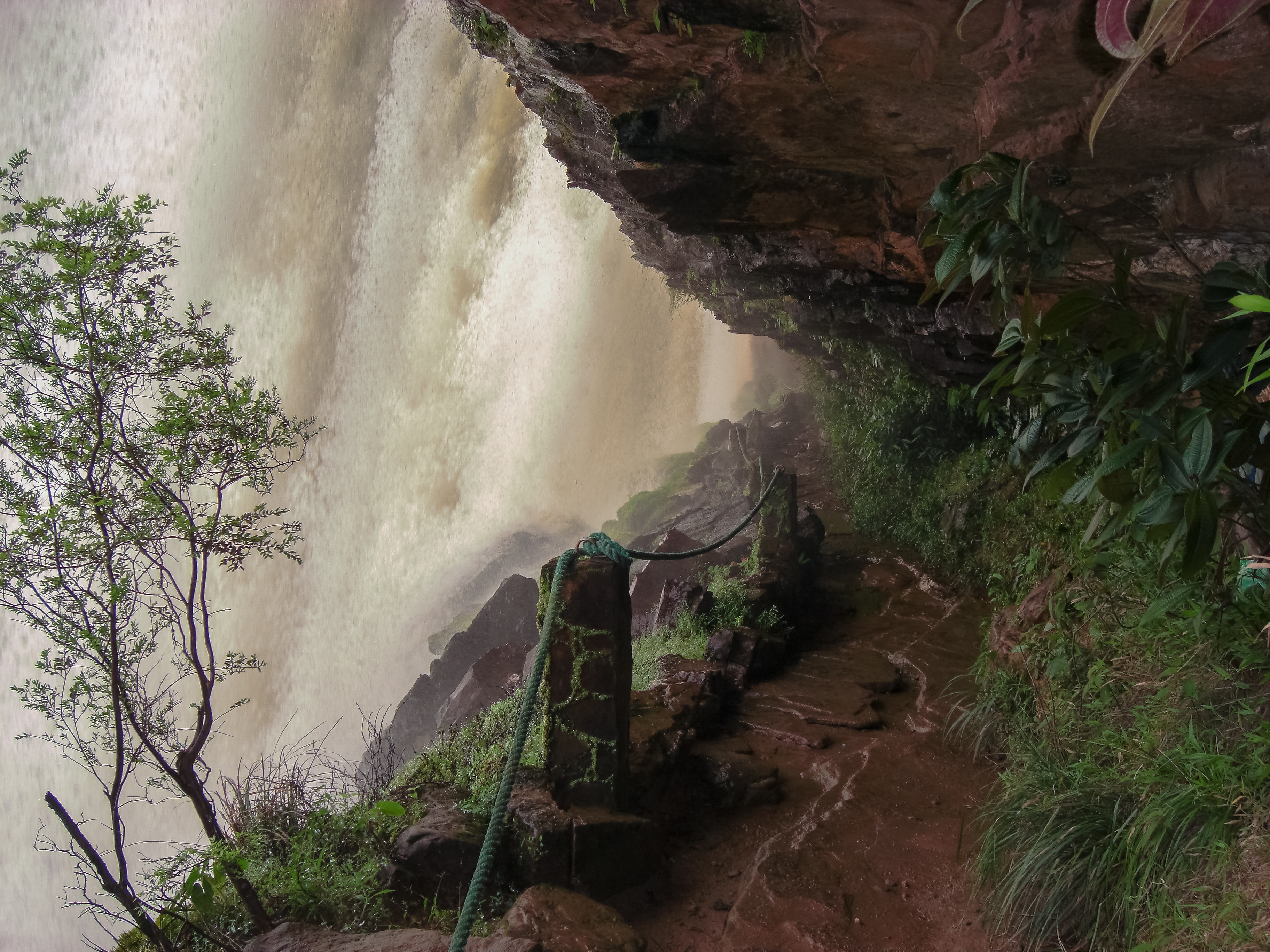 Salto Sapo, Canaima, Venezuela